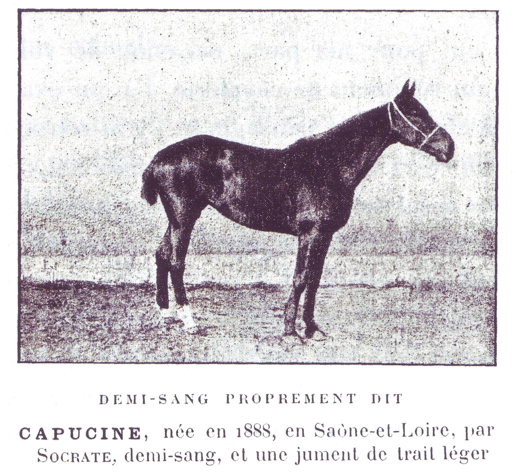 Demi-sang horse, Saône et Loire, France